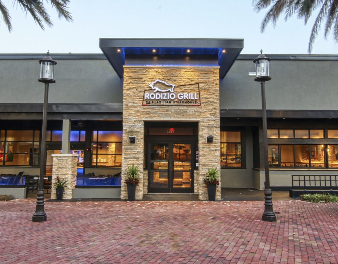 Rodizio Grill Orlando location